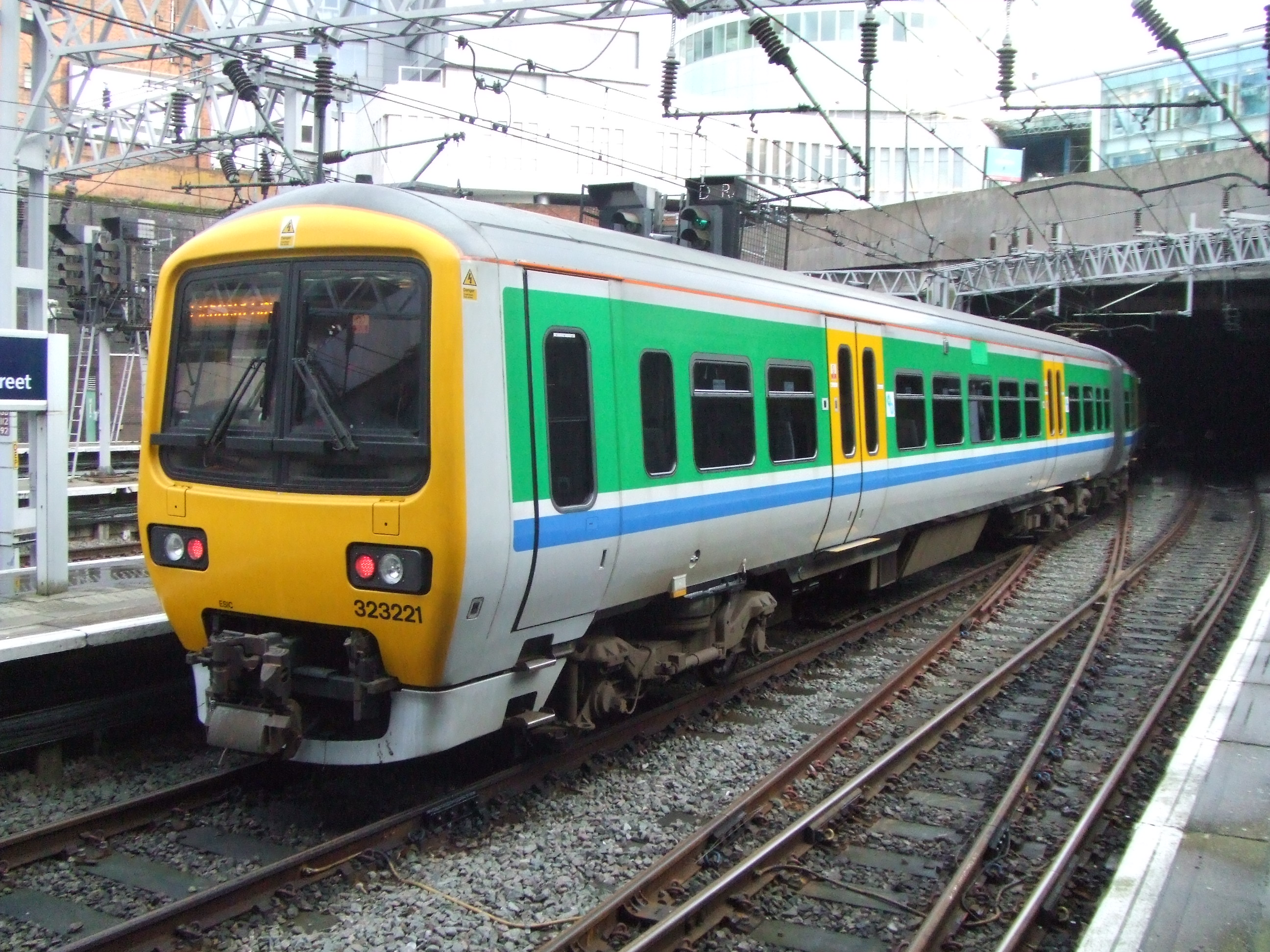 Hunslet Class 323 suburban 25k v ac overhead 3-car emu No.323 221 of Centro entering Birmingham New St on a service from Lichfield Trent Valley, 01/08.